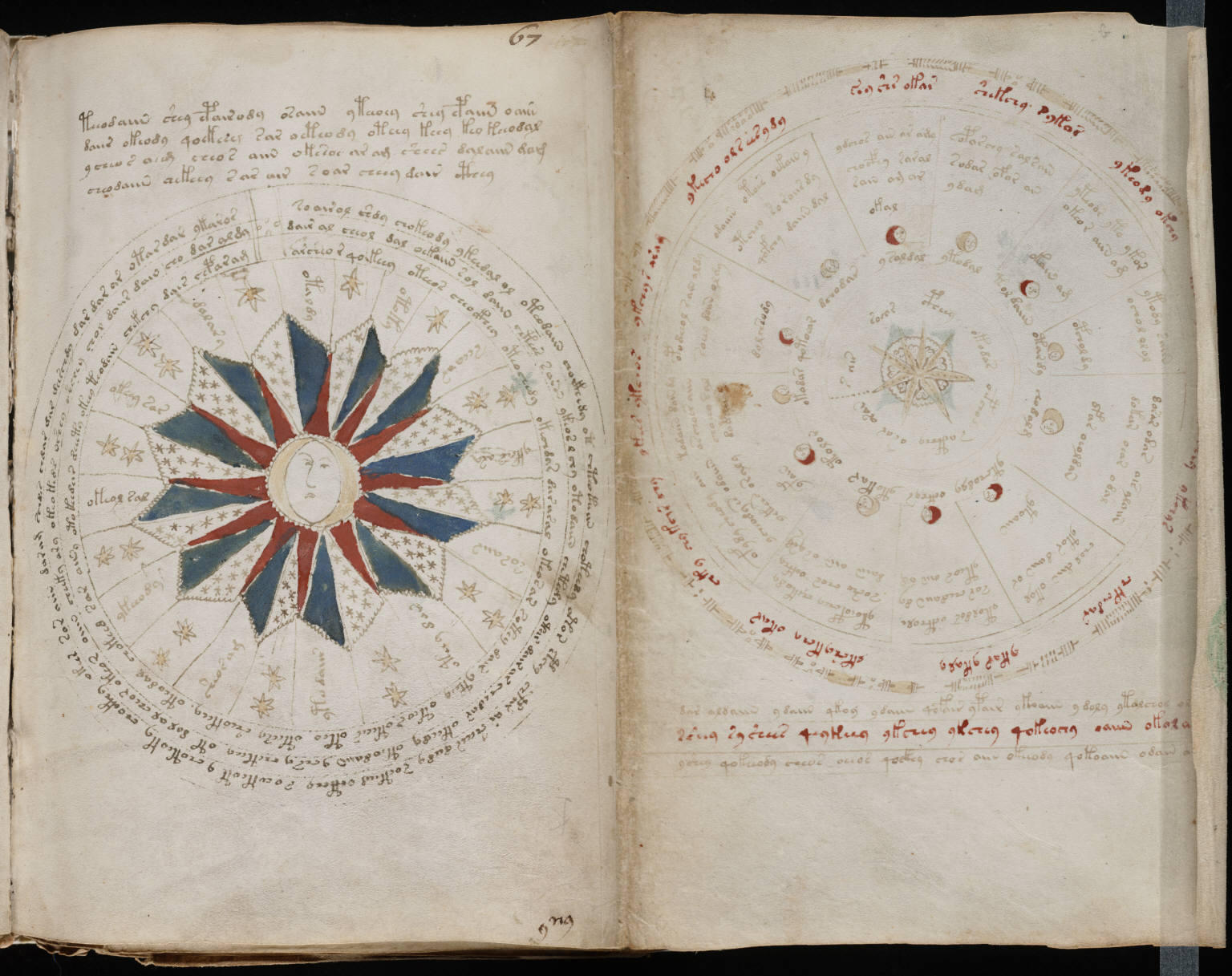 A page from the mysterious Voynich manuscript, which is undeciphered to this day. The image on the right indicates a 24 month cycle with the seasons listed and the image to the left indicates the mooncycles and planetary positions.